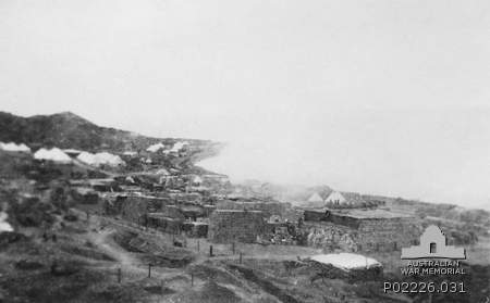 Elevated view of the beach area showing North Beach, Anzac Area, Gallipoli. Unconsumed bully beef stores are being burned before the Allied evacuation.